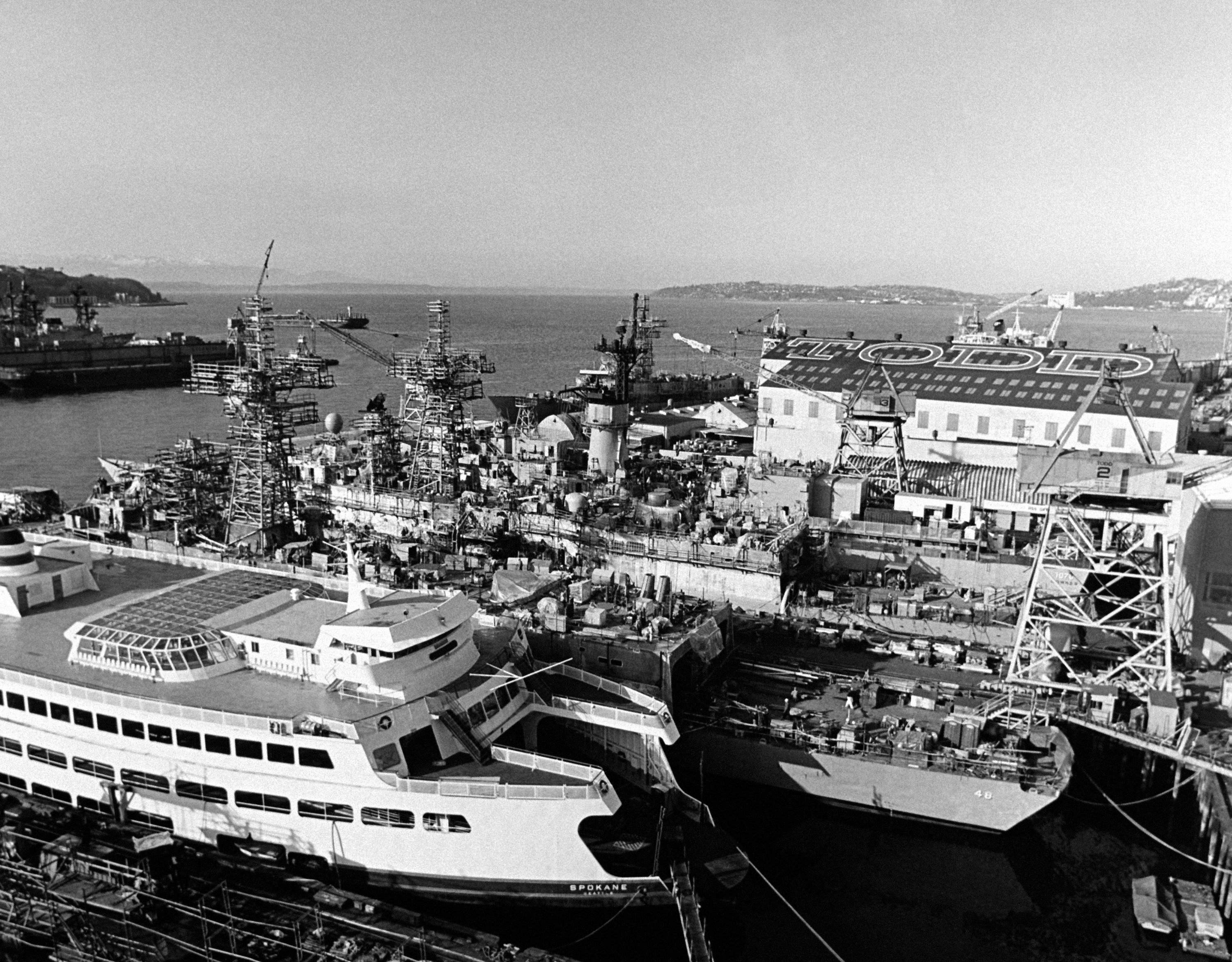 A port quarter view of the U.S. Navy guided missile frigate USS Halyburton (FFG-40) (middle) at 80 percent completion. From bottom left, Ferry M/V Spokane, USS Vandegrift (FFG-48), USS Halyburton (FFG-40) and USS Downes (FF-1070).